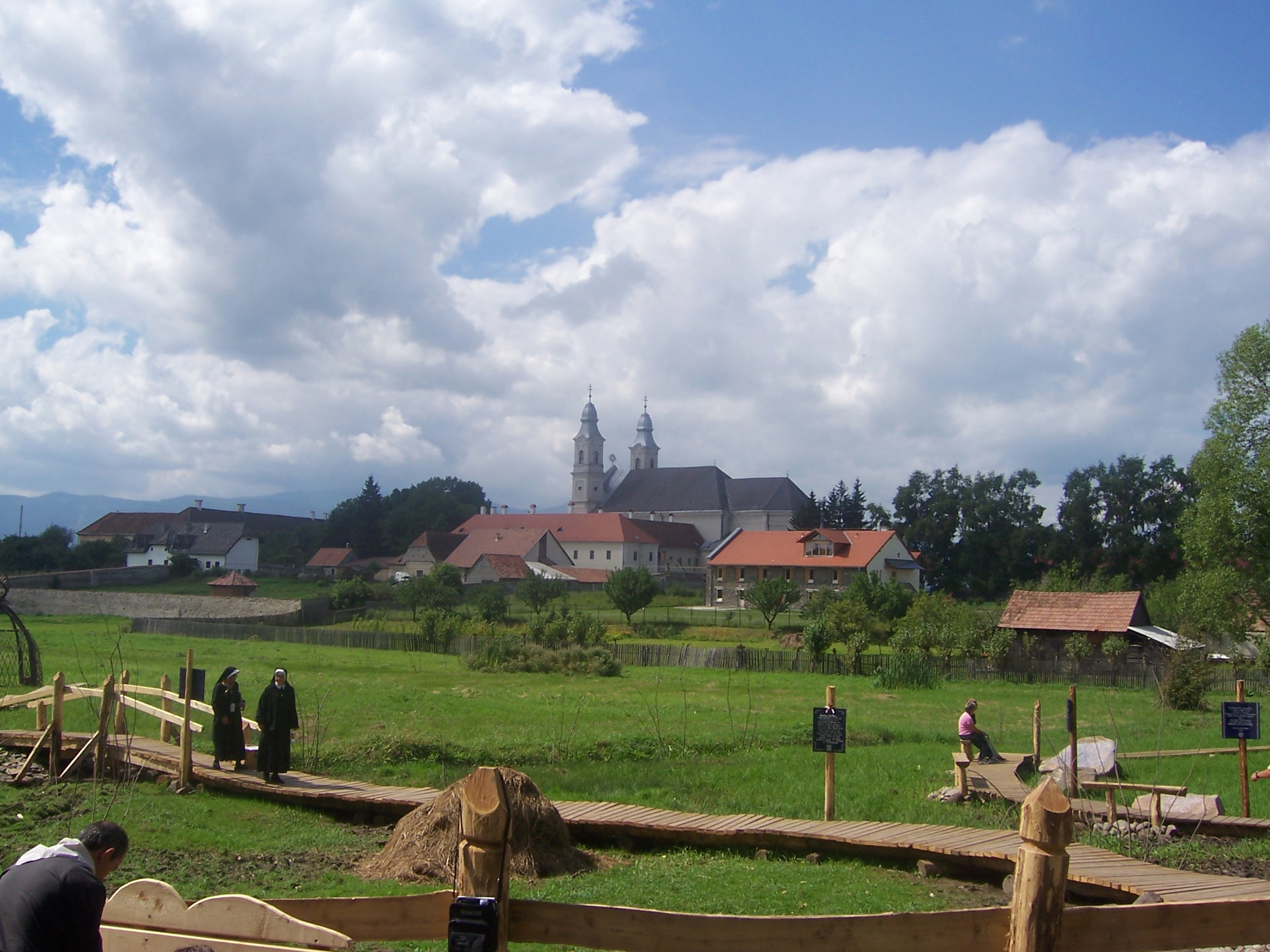 The area close to the spring-water source at Csiksomlyo was provided with boarded walkways soon after the millennium, along with a bathing facility